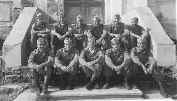 Greek operation group IV of OSS in Greece, 1944